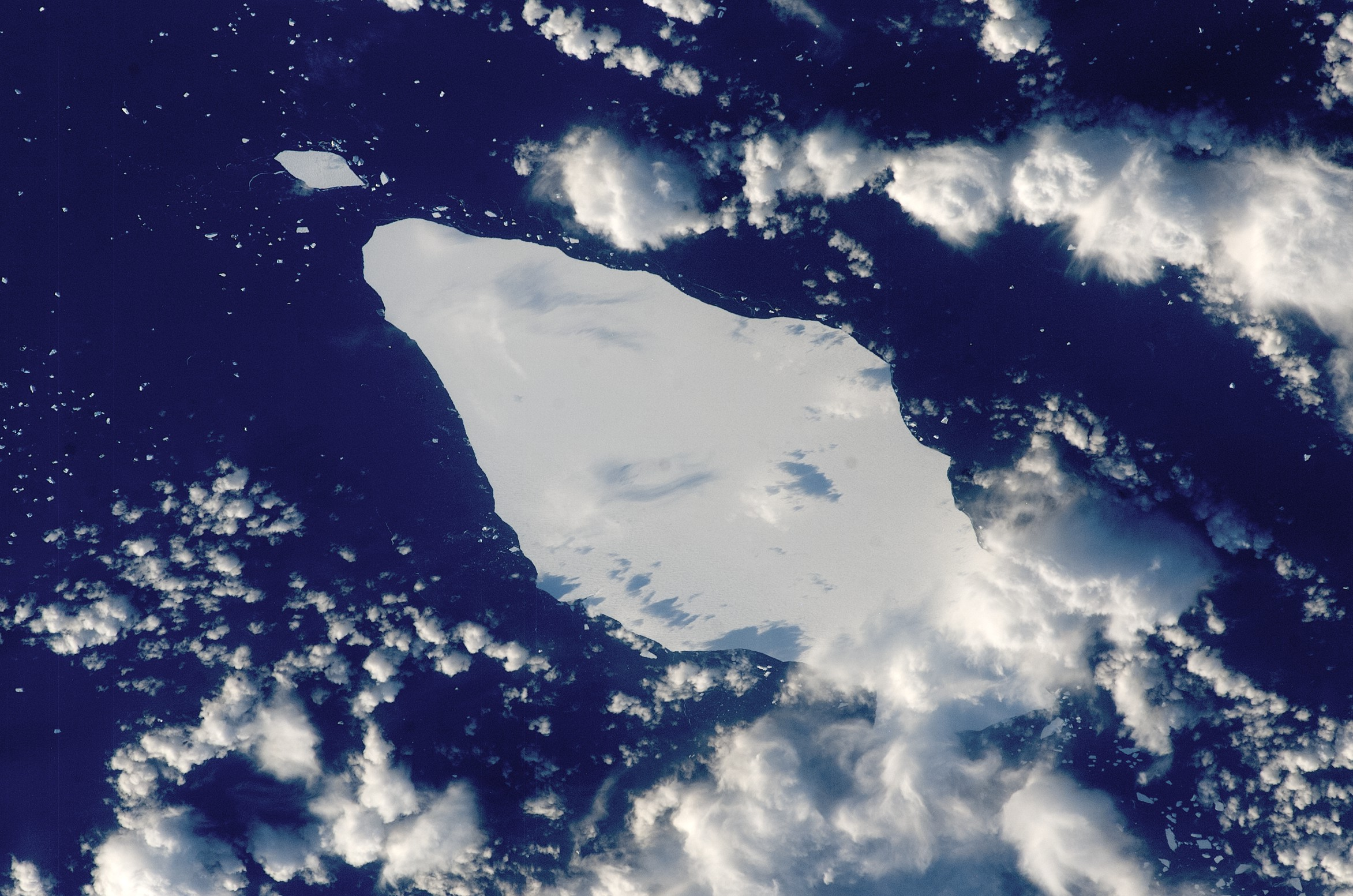 This astronaut photograph illustrates the remains of a giant iceberg—designated A22A— that broke off Antarctica in 2002. The iceberg was photographed at a location of 49.9 degrees south latitude, 23.8 degrees west longitude, which is about a third of the distance from South America towards Cape Town, South Africa. A22A is one of the largest icebergs to drift as far north as 50 degrees south latitude, bringing it beneath the daylight path of the International Space Station (ISS). Crew members aboard the ISS were able to locate the ice mass and photograph it, despite the great masses of clouds that often accompany winter storms in the Southern Ocean. The crew’s viewing angle was oblique (not looking straight down) from a point to the west of the berg, and the time of day was early afternoon, as shown by the orientation of the cloud shadows. Dimensions of A22A in early June were 49.9 by 23.4 kilometres, giving it an area of 622 square kilometres, or seven times the area of Manhattan Island. ISS Crew Earth Observations: ISS015-E-10125 Identification Mission ISS015 (Expedition 15) Roll E Frame 10125 Country or Geographic Name ATLANTIC OCEAN Features A22A ICEBERG, SMALL ICEBERGS Center Point Latitude -48.8° N Center Point Longitude -24.0° E Camera Camera Tilt 43° Camera Focal Length 180 mm Camera Kodak DCS760C Electronic Still Camera Film 3060 x 2036 pixel CCD, RGBG array. Quality Percentage of Cloud Cover 26-50% Nadir What is Nadir? Date 2007-05-30 Time 14:46:44 Nadir Point Latitude -50.5° N Nadir Point Longitude -21.8° E Nadir to Photo Center Direction Northwest Sun Azimuth 340° Spacecraft Altitude 181 nautical miles (335 km) Sun Elevation Angle 16° Orbit Number 799